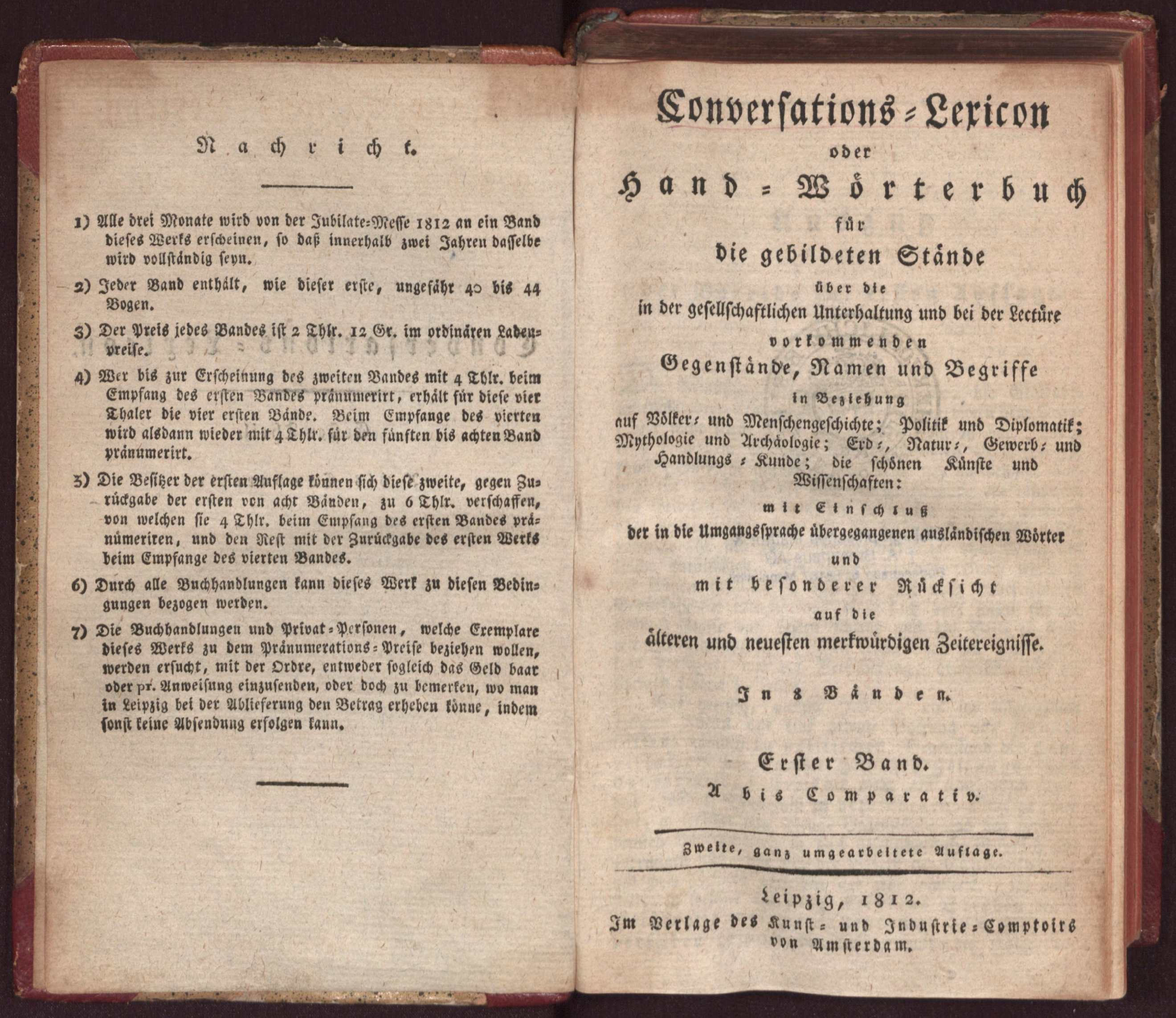 Title page of "Conversations-Lexicon oder Hand-Wörterbuch für die gebildeten Stände", a German encyclopedia published in 1812.